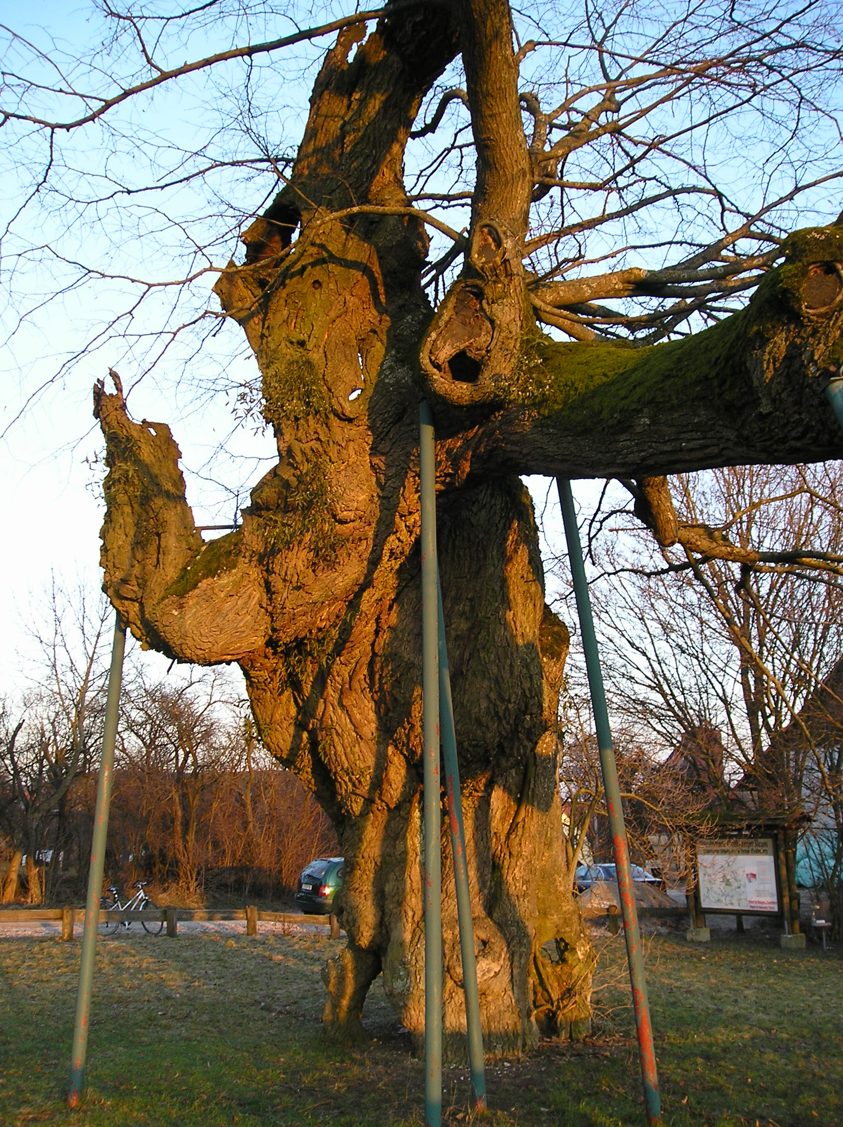 Trunk of the old Kasberg lime tree (Kasberg is a small village near Gräfenberg, Germany) in December 2008. The trunk is mostly rotten so the tree isn't stable on its own.